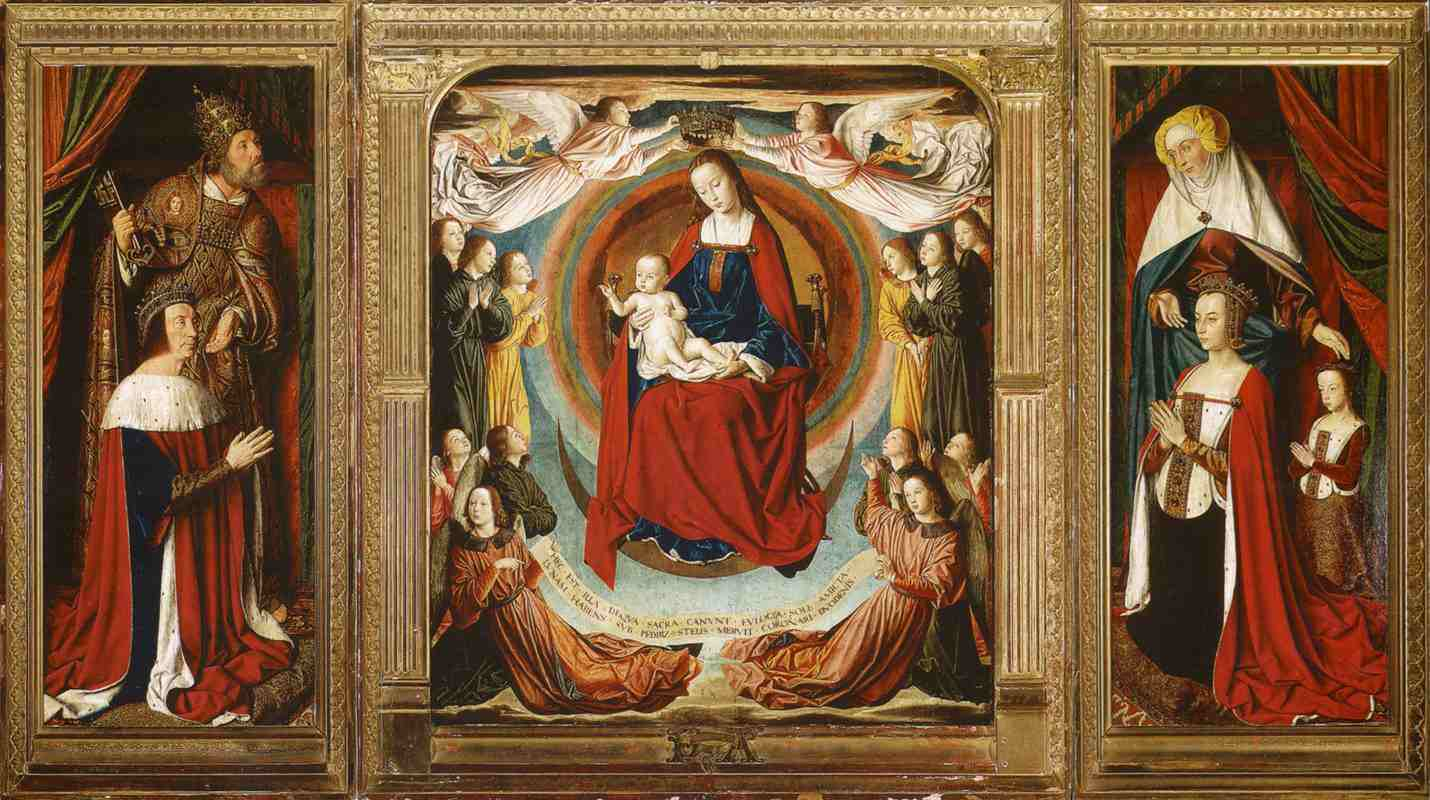 The Moulins Triptych Panel, 157 x 283 cm